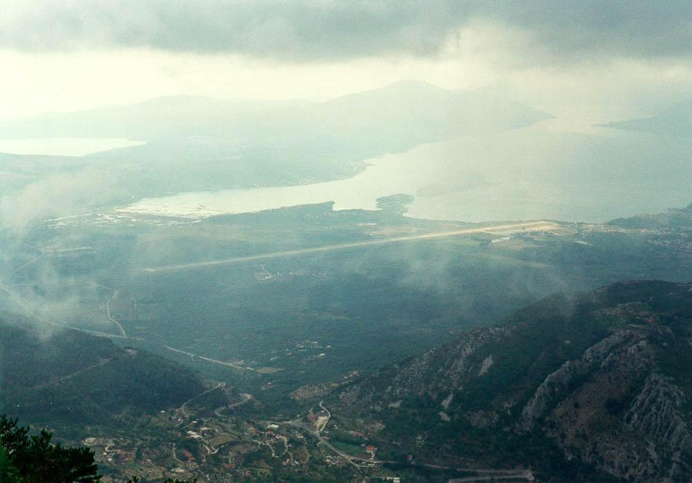 View of the Tivat Airport in southern Montenegro from Mt Lovćen, overlooking Bay of Kotor